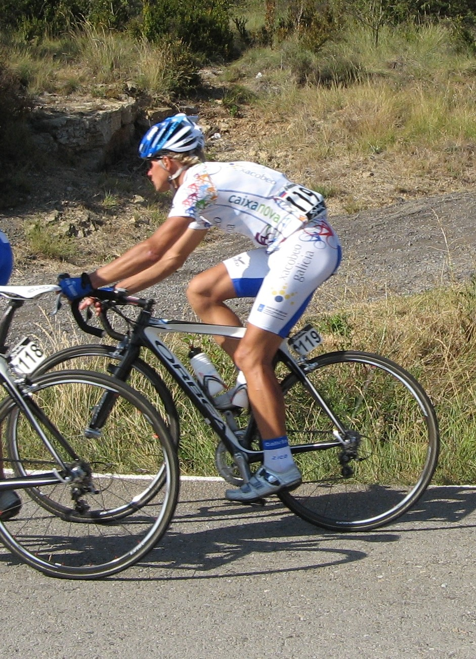 Eduard Vorganov, 2008 Vuelta a España, 9th stage, Alto Gallego, Spain.